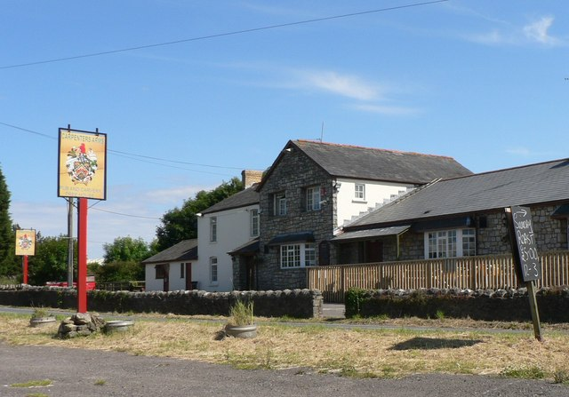 The Carpenter's Arms, Eglwys Brewis, Nr Llantwit Major Known to generations of RAF personnel as The Fisherbridge Inn until the early 80's then The Shackleton until the late 80's/early 90's before being renamed once again.